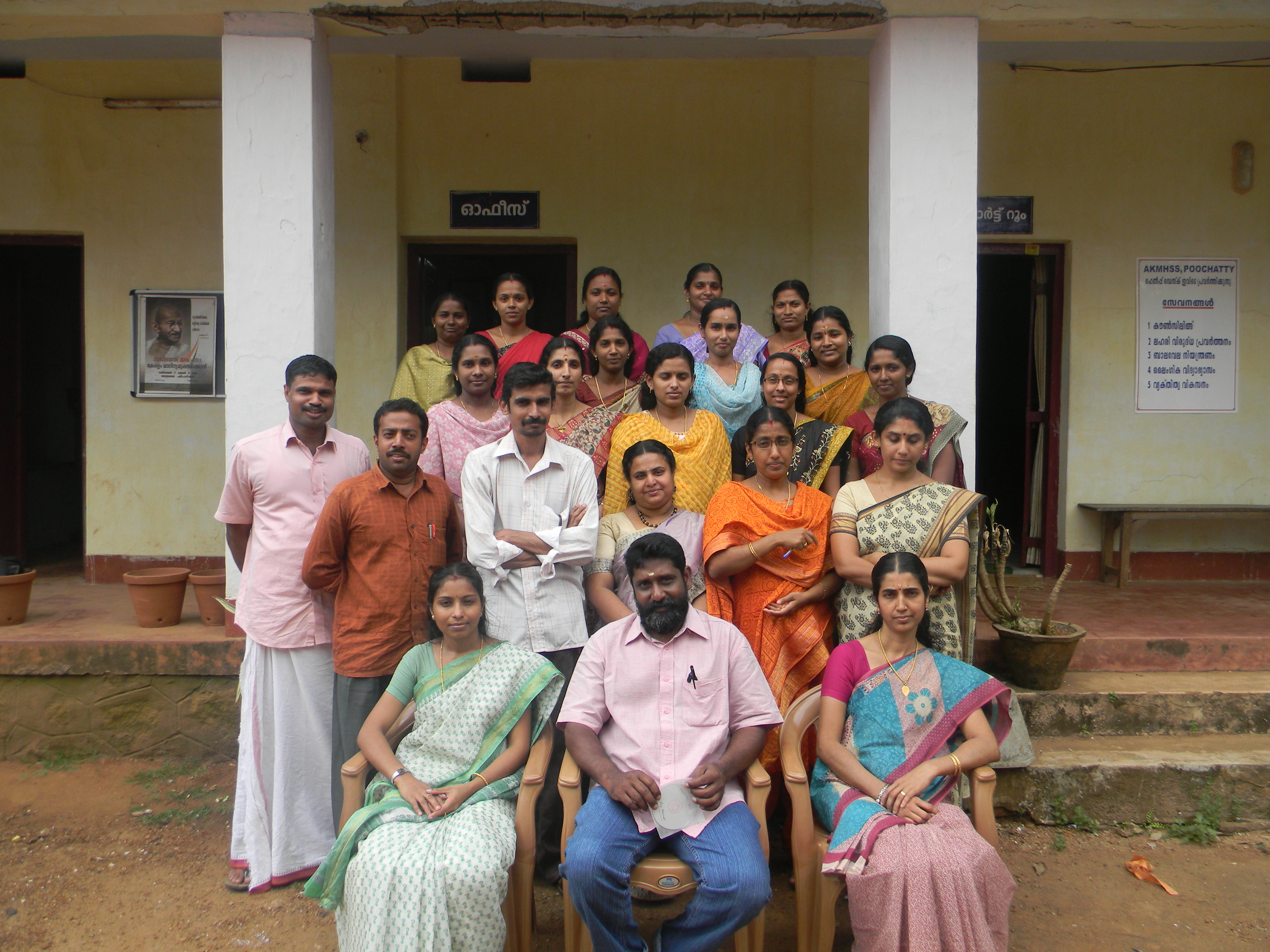 AKMHSS Poochatty school teachers with director sathish kalathil